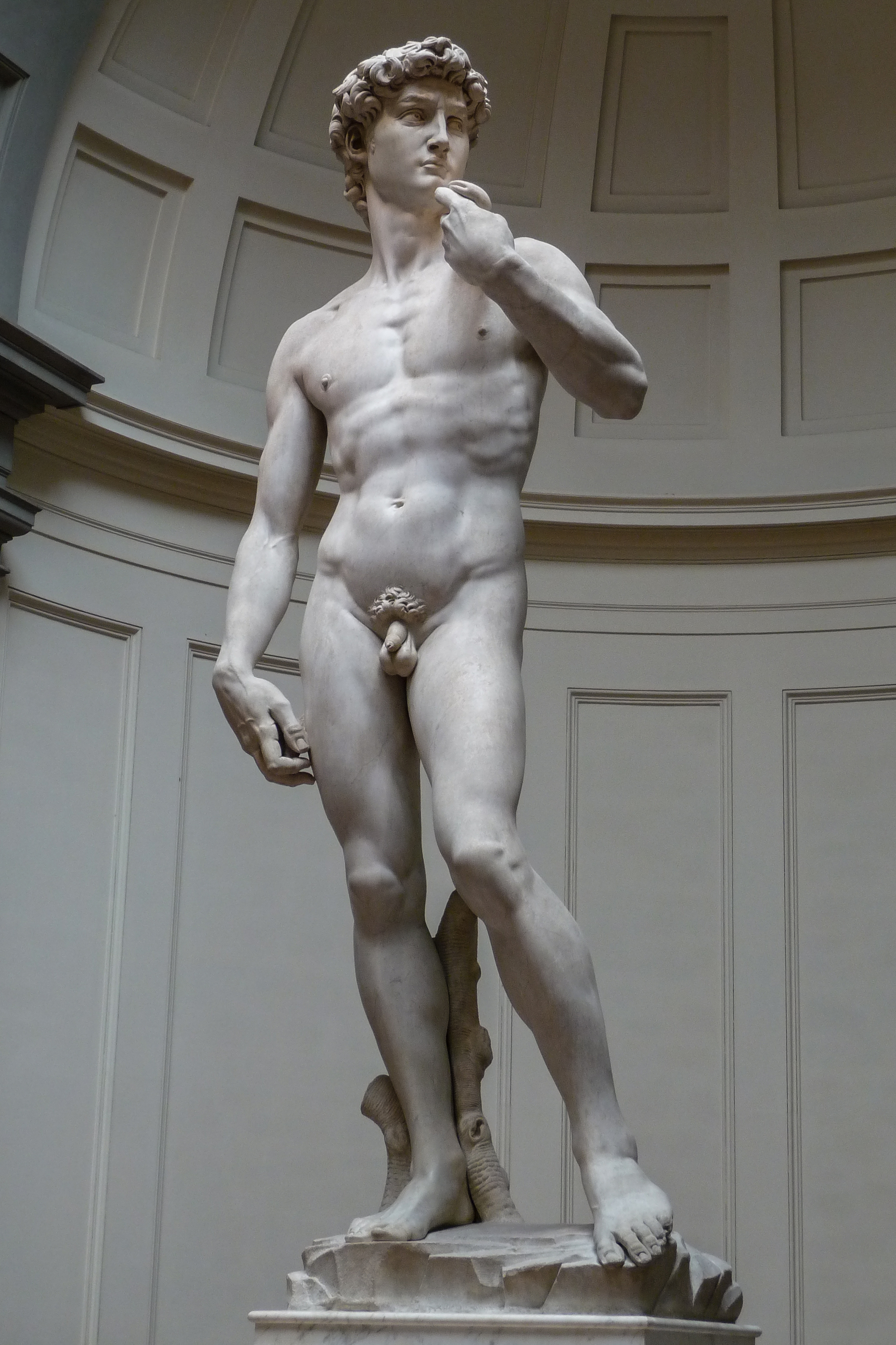 Michelangelo's David, 1501-1504, Galleria dell'Accademia (Florence)